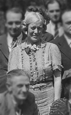 Muriel Lester (cropped version of File:Photo 7 Council 1938, WRI.jpg)